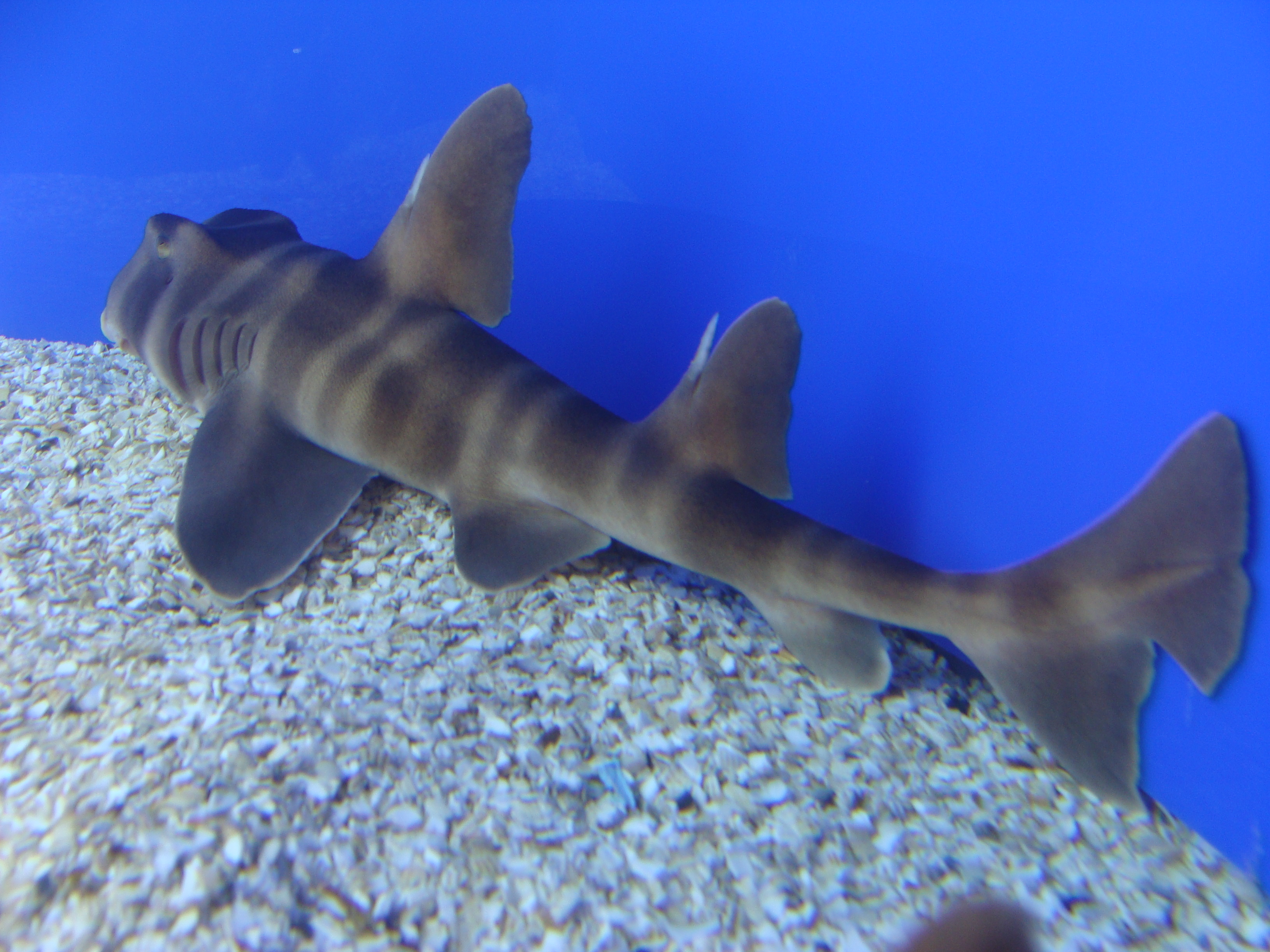 Heterodontus japonicus (Japanese bullhead shark) in Sala Humboldt of Aquarium Finisterrae (House of the Fishes), in Corunna, Galicia, Spain.